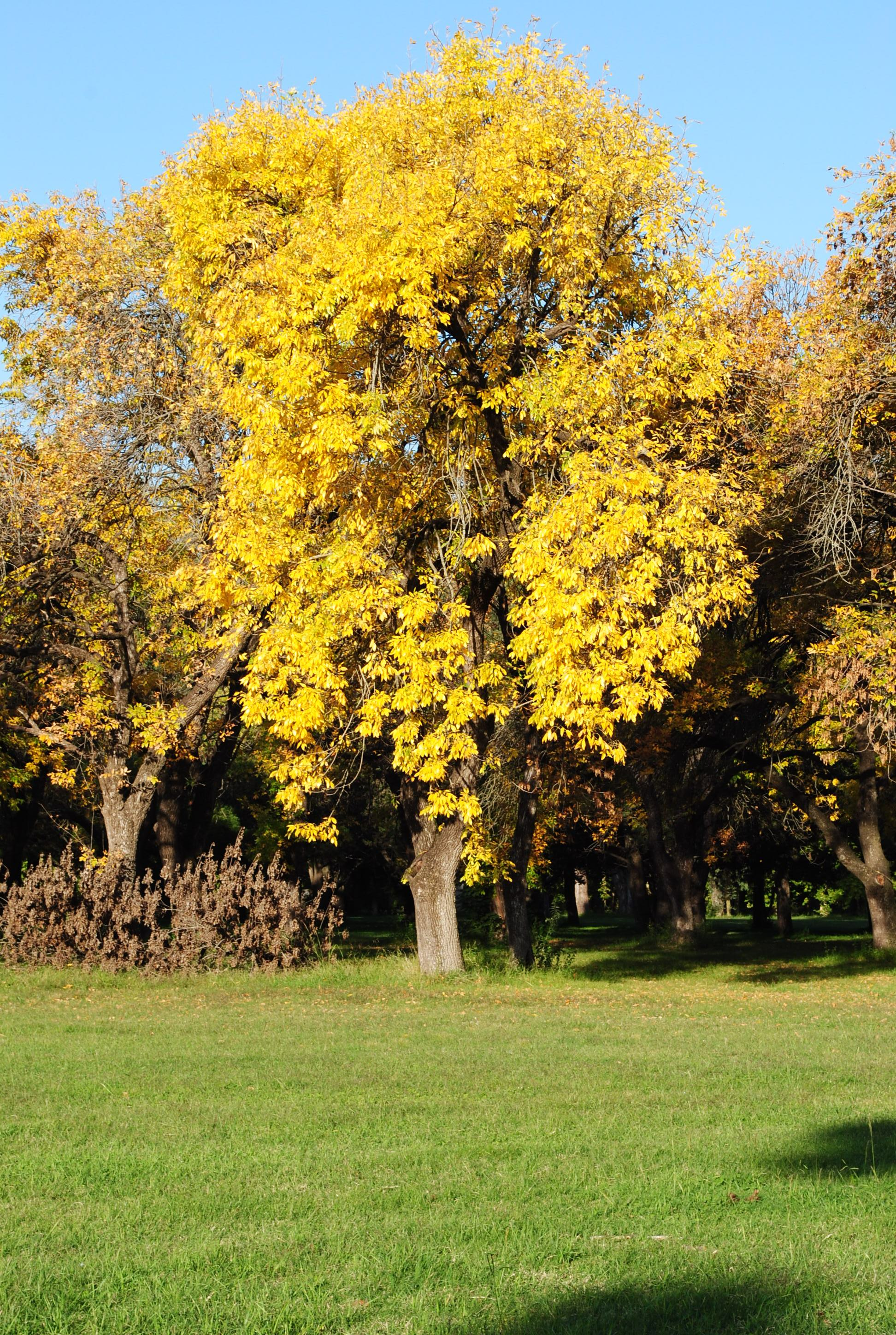 Fall ash grove at Villarino Park, Santa Fe province, Argentina